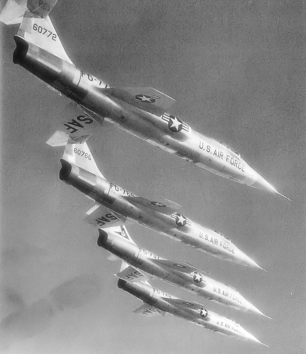 F-104As of the 84th FIS, Hamilton AFB CA. F-104A Starfighters fly in formation near Edwards AFB in early 1958. One airplane has the markings of the Air Force Flight Test Center on its vertical tail. Other three aircraft could be pre-delivery aircraft for Hamilton's 83rd FIS, the first USAF squadron to fly the Starfighter in operational service.